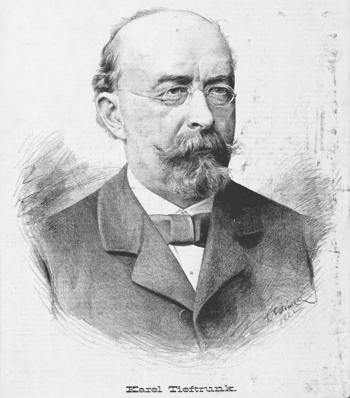 Portrait of Karel Tieftrunk (1829 - 1897), Czech high-school teacher and author of textbooks on Czech language, literature and history